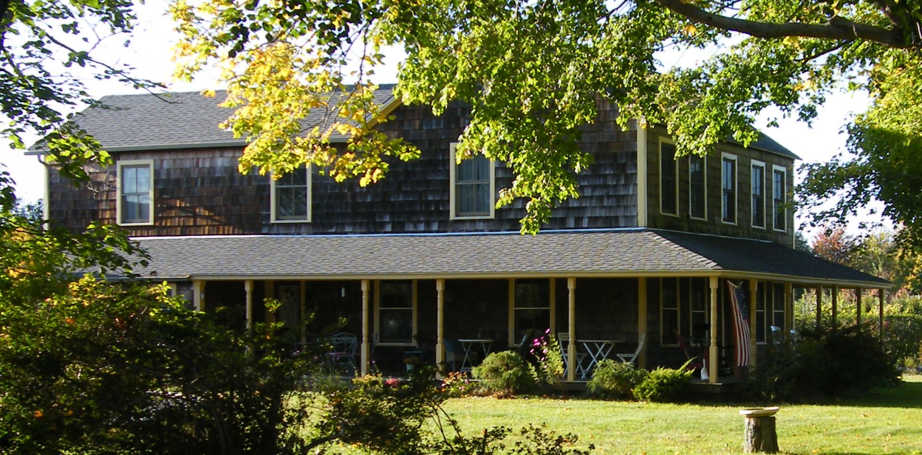 Halock-Bilunas Farmstead Jamesport, New York